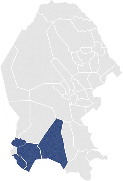 Map of the Fifth Federal Electoral District of the State of Coahuila, México.